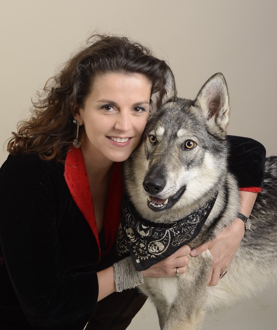 Isabel Behncke and her wolf dog Akila